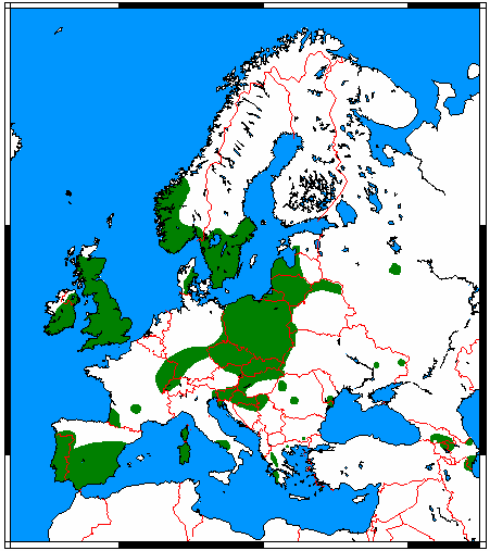 Range map for Soprano Pipistrelle (Pipistrellus pygmaeus), made by me with help of Map depending on the range map at IUCN red list.